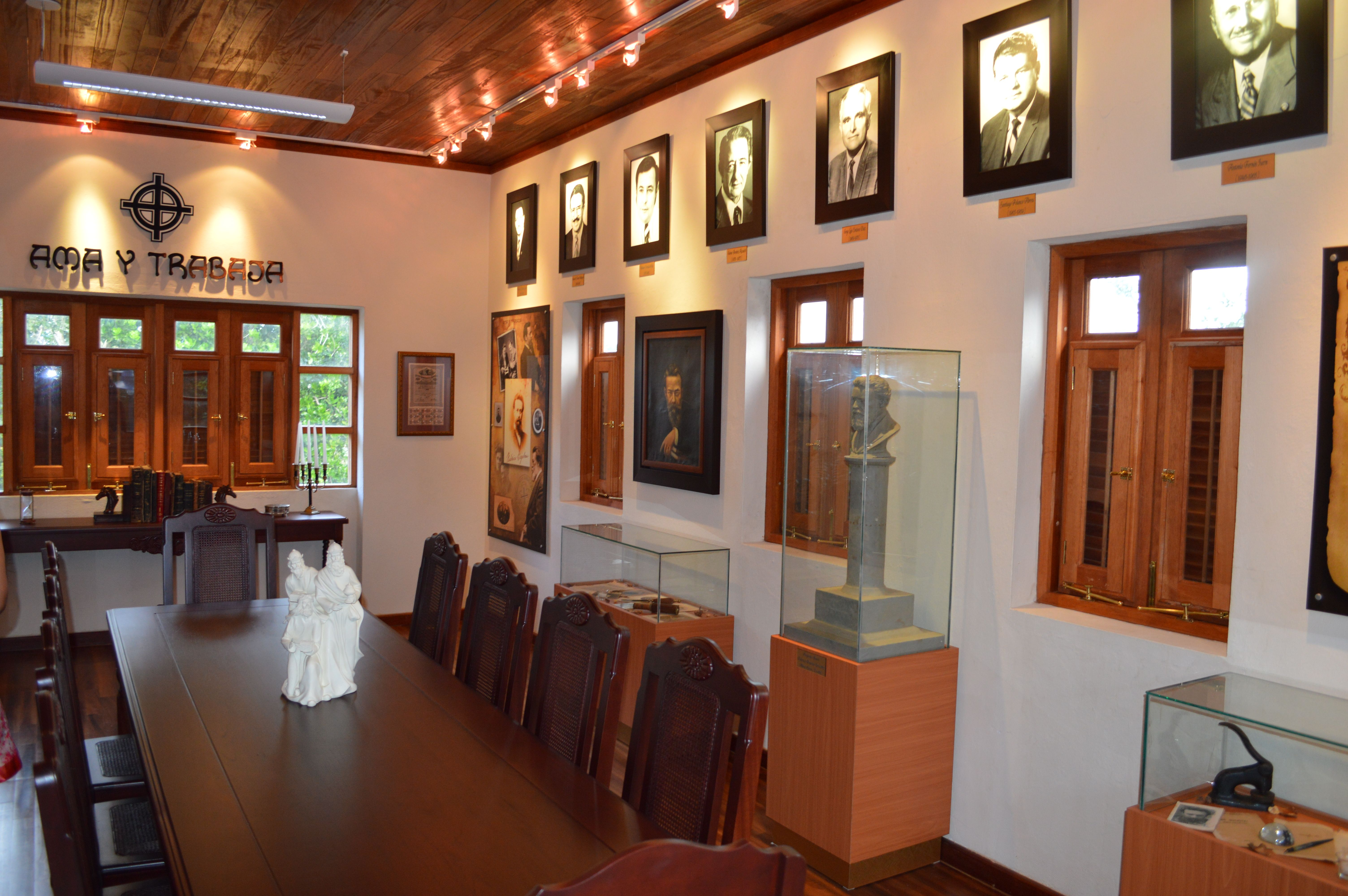 Picture taken by me of the Federico Degetau House and Museum's Rosacruz room.